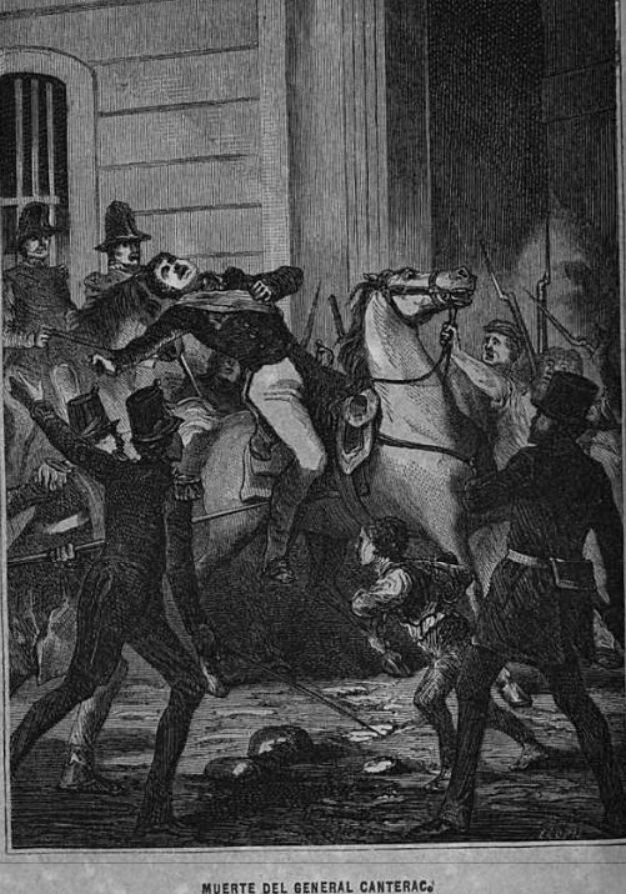 Grabado en blanco y negro que representa el asesinato en Madrid del general José de Canterac, que tuvo lugar en 1835.